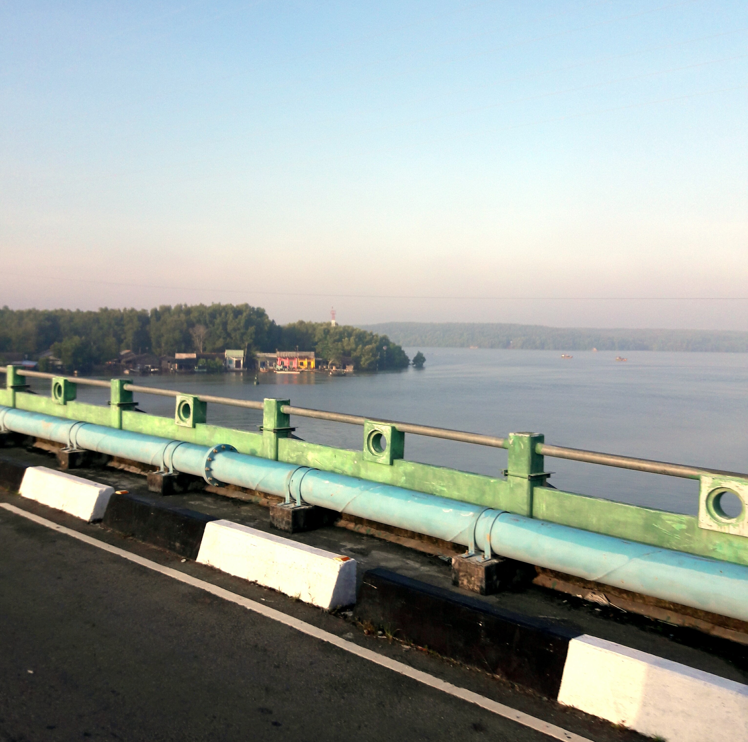 Đi trên cầu An Nghĩa thuộc đường Rừng Sác, huyện Cần Giờ